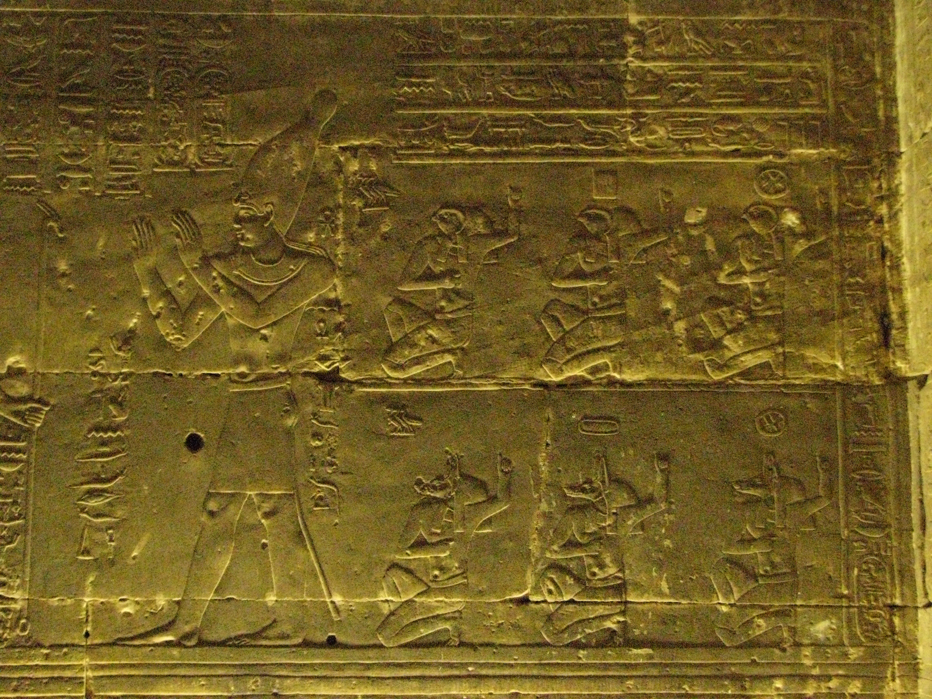 The Souls of Pe and Nekhen showing the typical "henw"-gesture in a side chamber of the Horus Temple in Edfu.